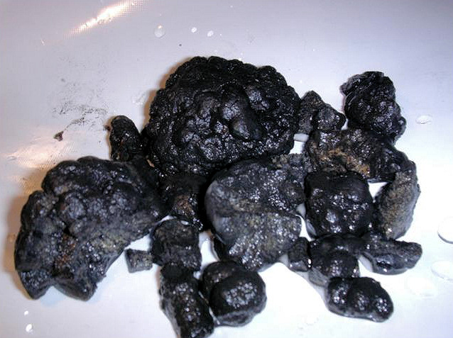 Manganese nodules taken from the bottom of the Pacific.